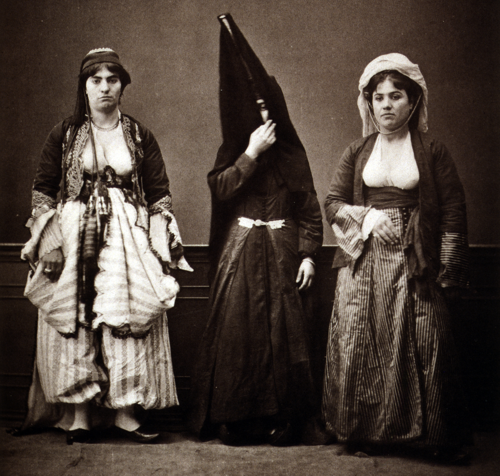 (1): Christian woman of Zahlè (Zaḥlah); (2): Druze woman of Liban (Lebanon) and (3) Christian woman of Zgarta (Zgharta). Les Costumes Populaires De La Turquie, en 1873.A collection of photographs by the famous photographer Pascal Sebah on the occasion of the universal exposition in Viena in 1873. The album represents the costumes of the different regions, and ethnic and religious groups of the Ottoman Empire.